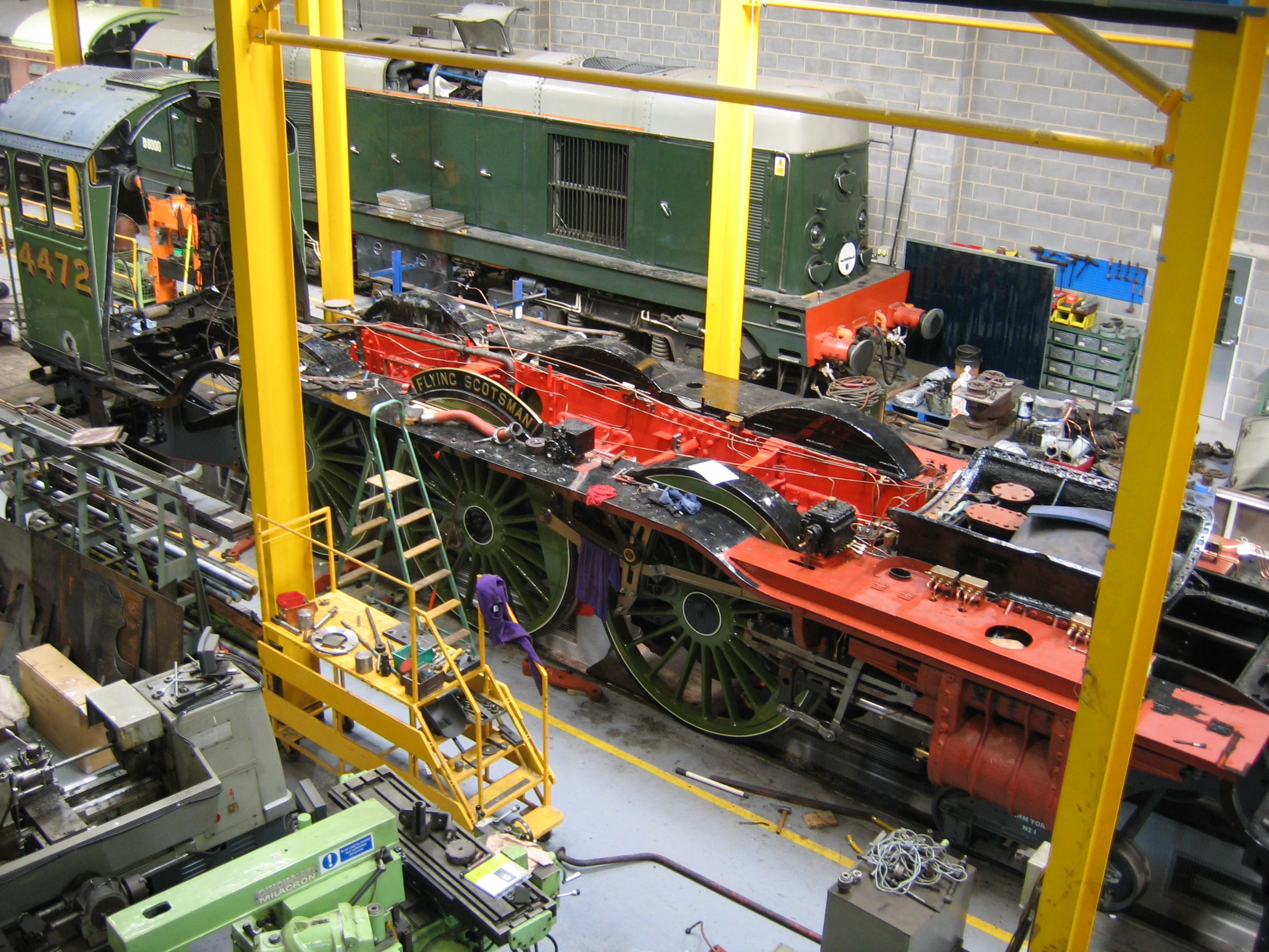 Flying Scotsman in the public workshop of National Railway Museum, York